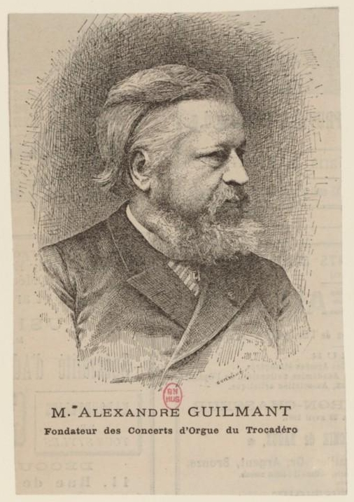 Portrait of Alexandre Guilmant